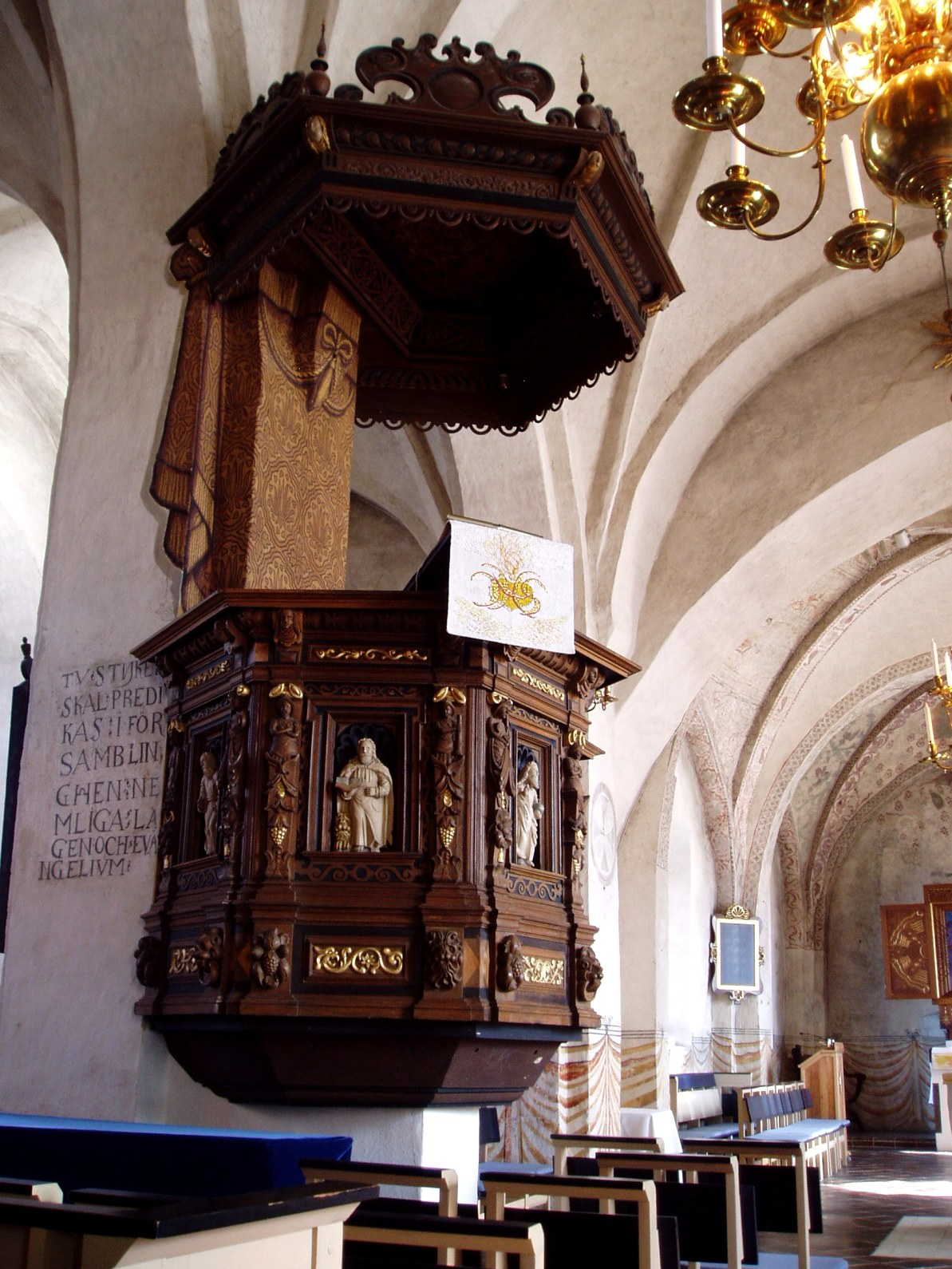 Torshälla church, Sweden, Pulpit